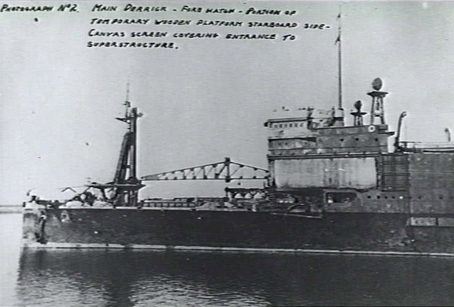 Forward part of Imperial Japanese Army's landing ship Shinsyu Maru.